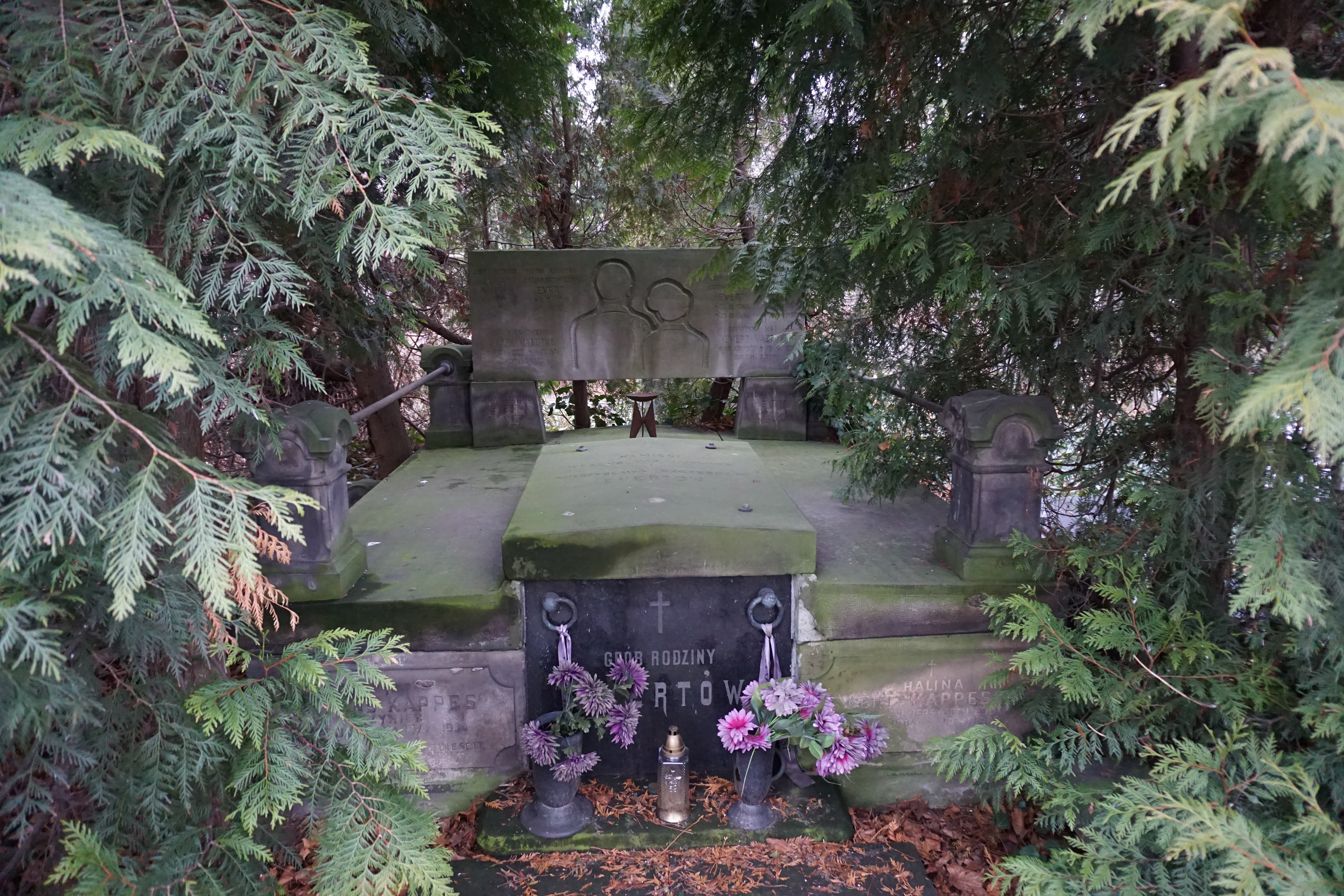 The grave of Władysław Ludwik Evert and the Evangelical-Augsburg Cemetery in Warsaw (avenue 24, grave 26)